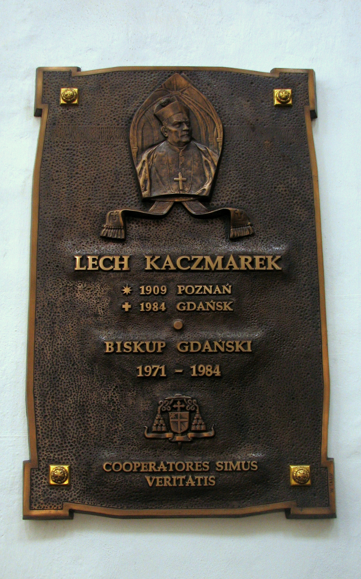 Plaque to bishop Lech Kaczmarek in Oliwa Cathedral in Gdańsk.